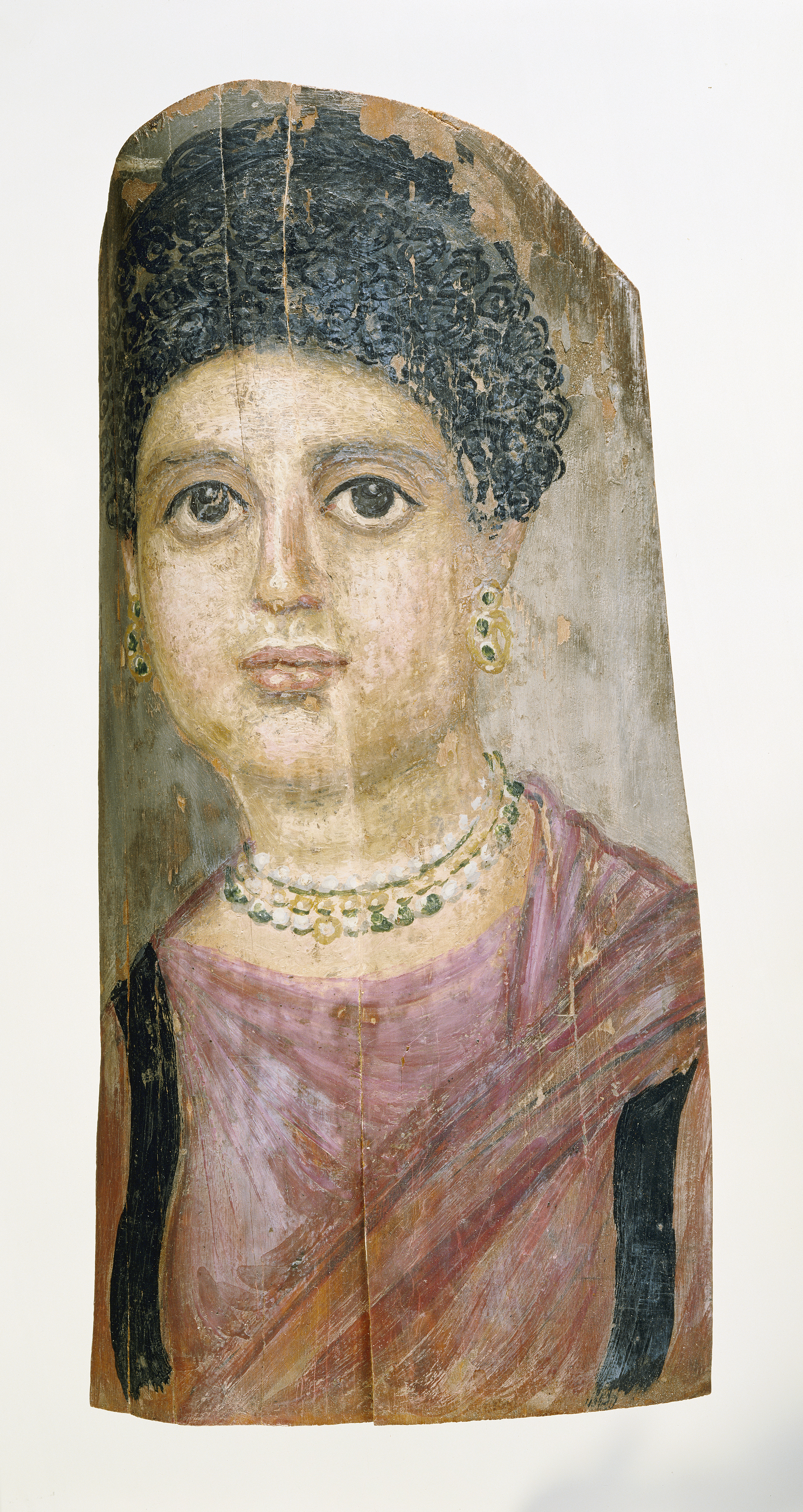 Mummy Portrait, A.D. 75–100, Encaustic wax technique on lime wood panel. 40 × 20 × 0.2 cm (15 3/4 × 7 7/8 × 1/16 in.) The J. Paul Getty Museum, Los Angeles